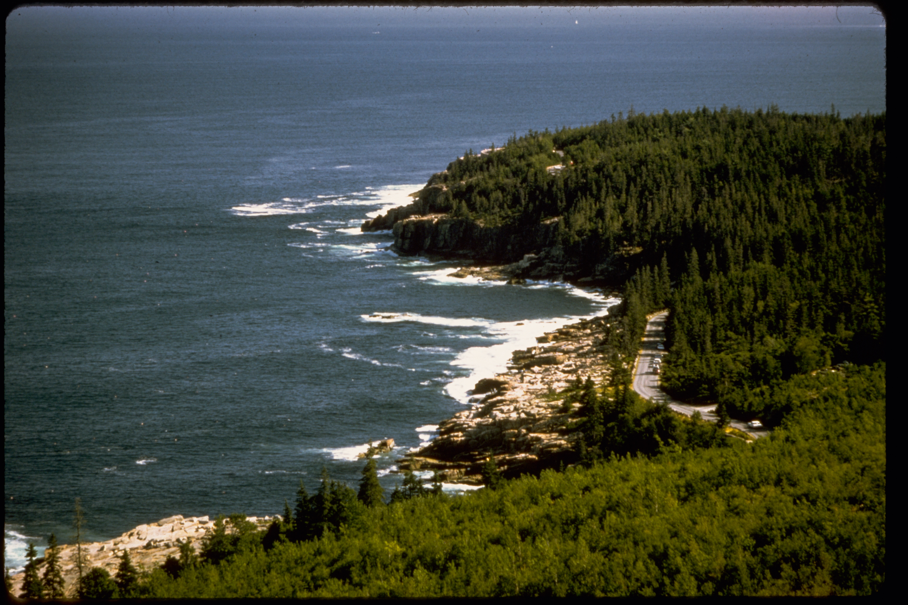 Location Acadia National Park Description People have been drawn to the rugged coast of Maine throughout history. Awed by its beauty and diversity, early 20th-century visionaries donated the land that became Acadia National Park. The park is home to many plants and animals, and the tallest mountain on the U.S. Atlantic coast. Today visitors come to Acadia to hike granite peaks, bike historic carriage roads, or relax and enjoy the scenery.